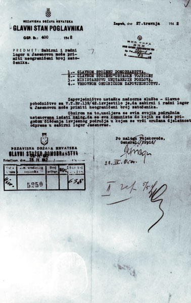 Circular made by general Ivan Prpić, following orders of marshall Kvaternik, which informed General Staff of Army (Glavni Stožer Domobranstva), Ustasha militia headquaters (Glavni stožer Ustaške Vojnice), Ministry of Interior (Ministarstvo unutarnjih dela) and Chief Command of Gandarmery (Vrhovno zapovjedništvo oružništva) as follows: "The command of ustasha surveillance service - the chief adjutant, with top secret No 139/42, has informed us that the assembly and labor camp in Jasenovac can accept an unlimited number of inmates. Therefore, please issue orders to your all subortinate command posts to send to Jasenovac all Communists who are caught during the clearing of areas in which military operations are conducted."